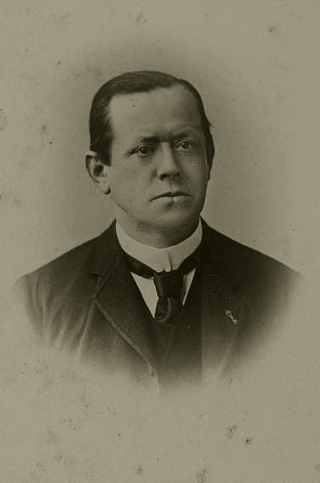 Johann Gottlieb Sillem